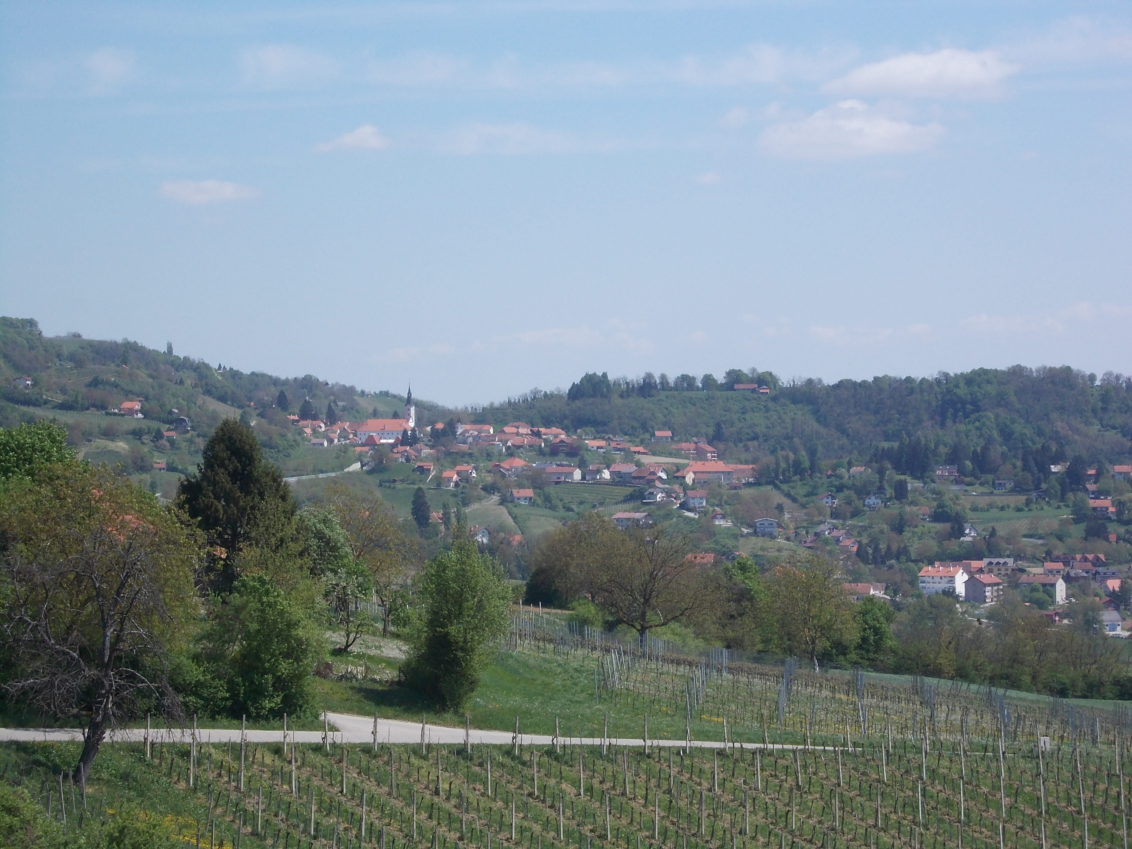 Klanjec as viewed from Orešje na Bizeljskem, Slovenia